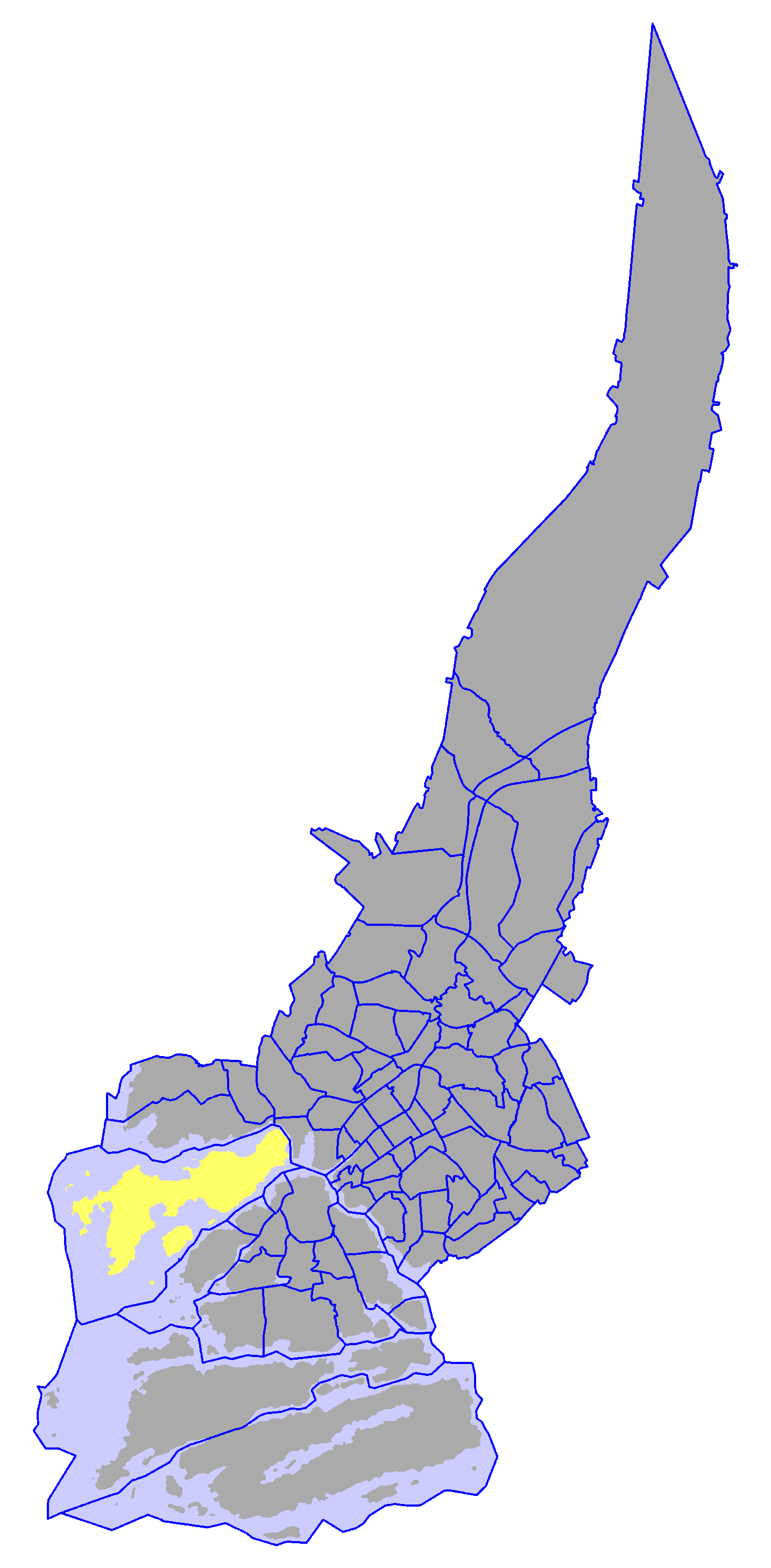 District of Ruissalo, in Turku